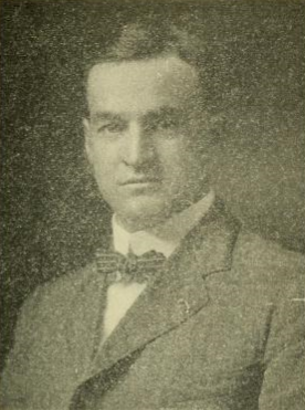 Who's Who in State Politics, 1911, Boston, MA: Practical Politics, (1911), p. 171.